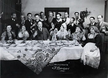 Scene from The Yiddish King Lear (Der Yidisher Kenig Lir) Image courtesy of The National Center for Jewish Film